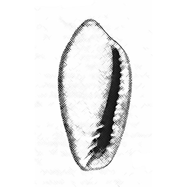 Family: MARGINELLIDAE Fleming, 1828 Subfamily: MARGINELLINAE Fleming, 1828 Genus: Serrata Jousseaume, 1875